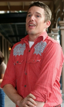 Ethan Hawke at the 2007 premiere of The Hottest State in Austin, Texas.